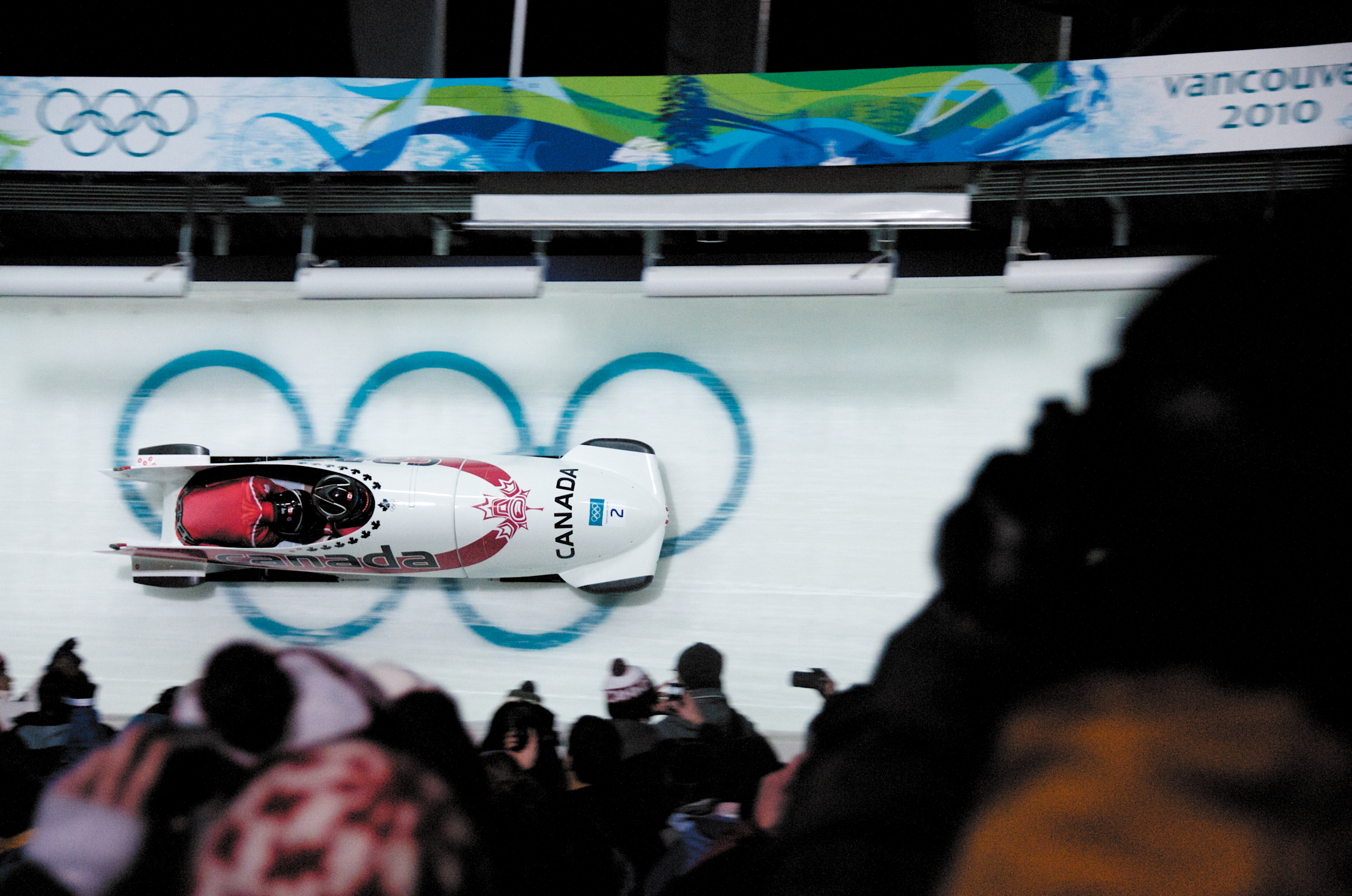 Women's Bobsleigh Final on Day 13 of the Vancouver 2010 Winter Olympics. Canada wins Gold and Silver!